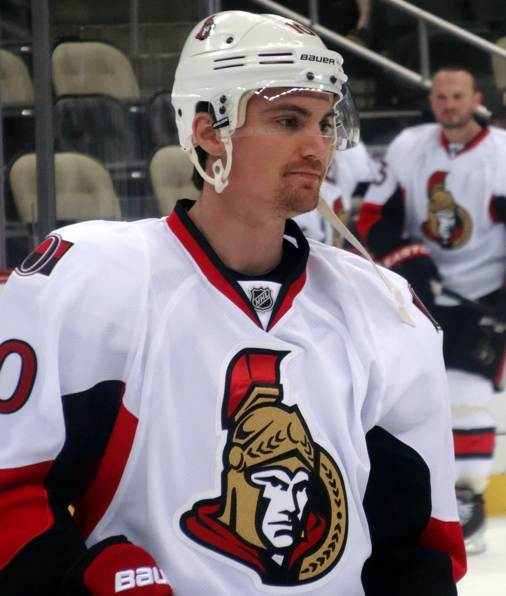 Ottawa Senators defenseman Mike Lundin during game two of their second round series against the Pittsburgh Penguins, May 17, 2013 at Consol Energy Center in Pittsburgh, PA.